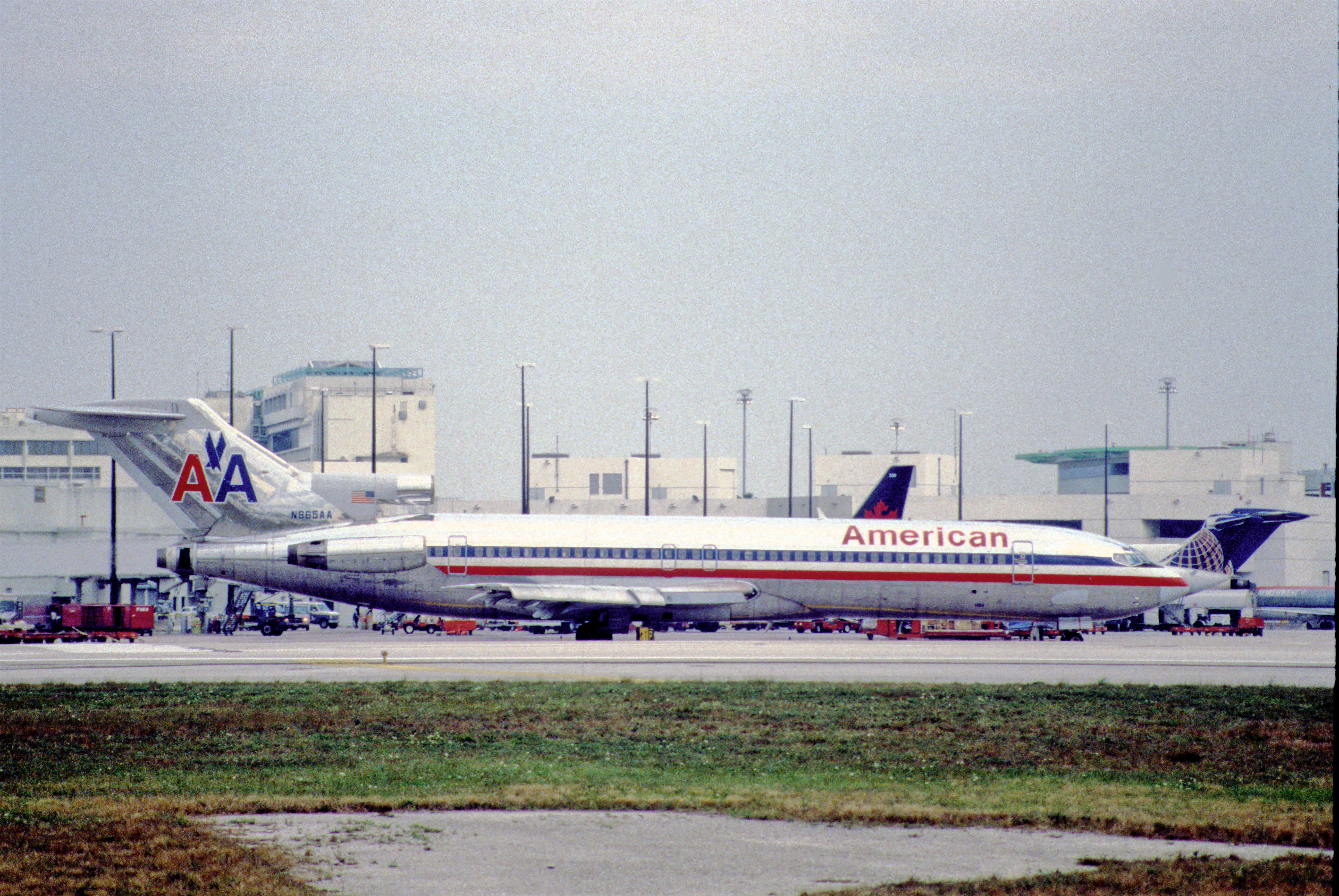 12ai - American Airlines Boeing 727-223; N865AA@MIA;31.01.1998